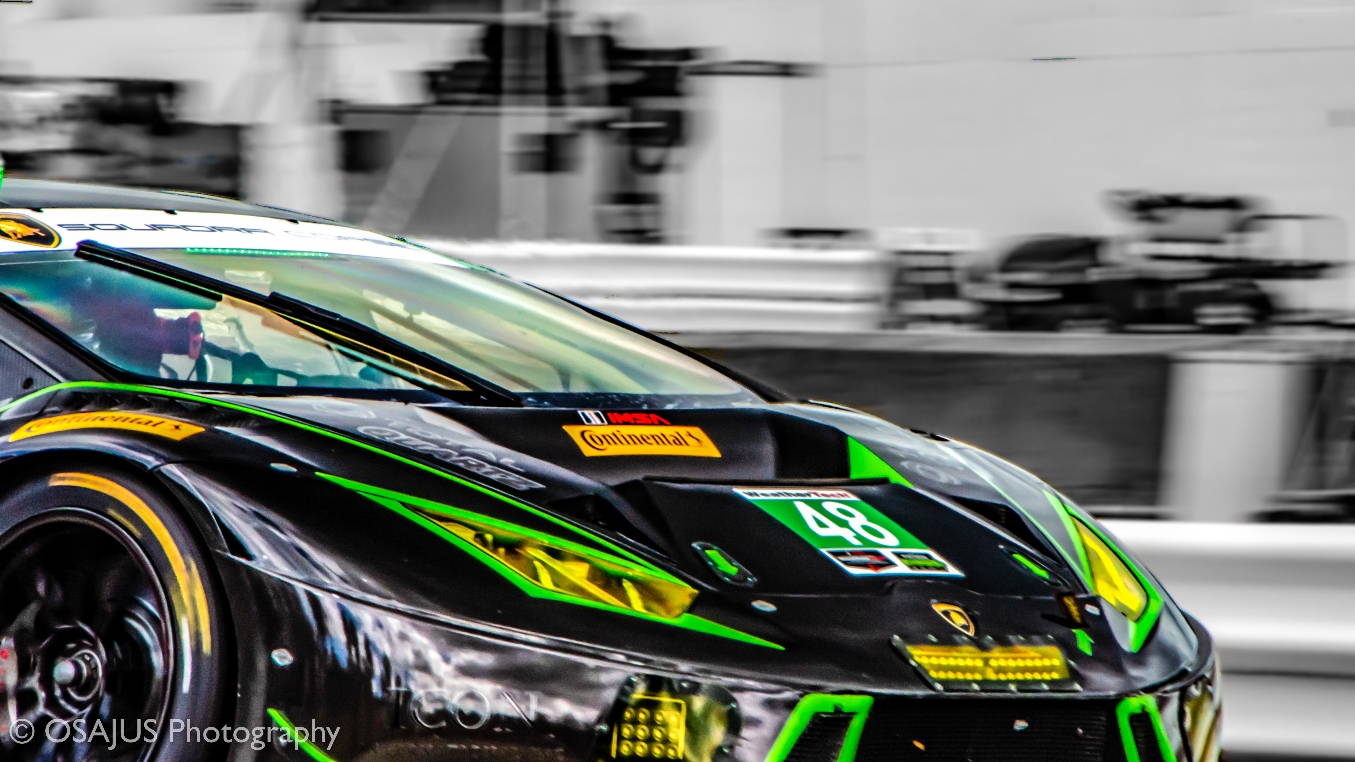 2018 Petit Le Mans Lamborghini Huracán GT3's Paul Miller Racing driven by Bryan Sellers, Madison Snow and Corey Lewis